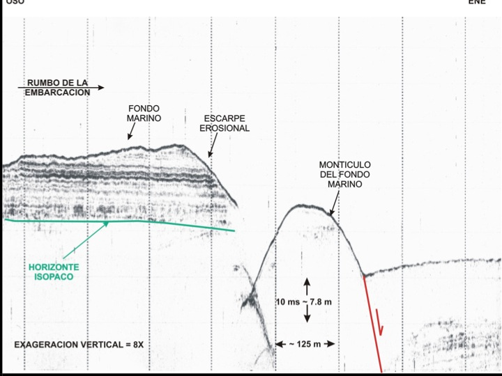 Fig. 4. Porciones de datos del penetrador de fango tipo Pinguer 3.5 KHz. que muestra un montículo en el lecho marino.